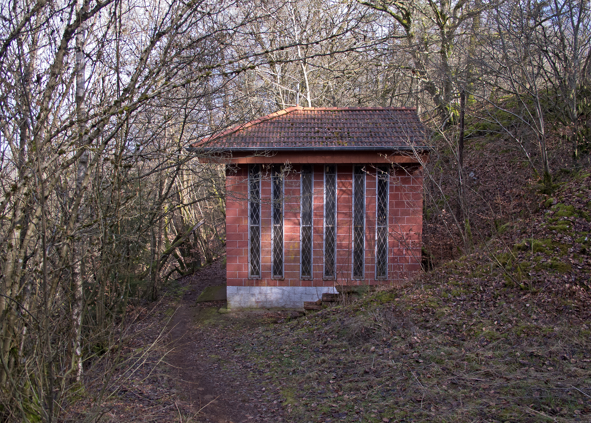 Chapel in Kayl near the Léiffrächen